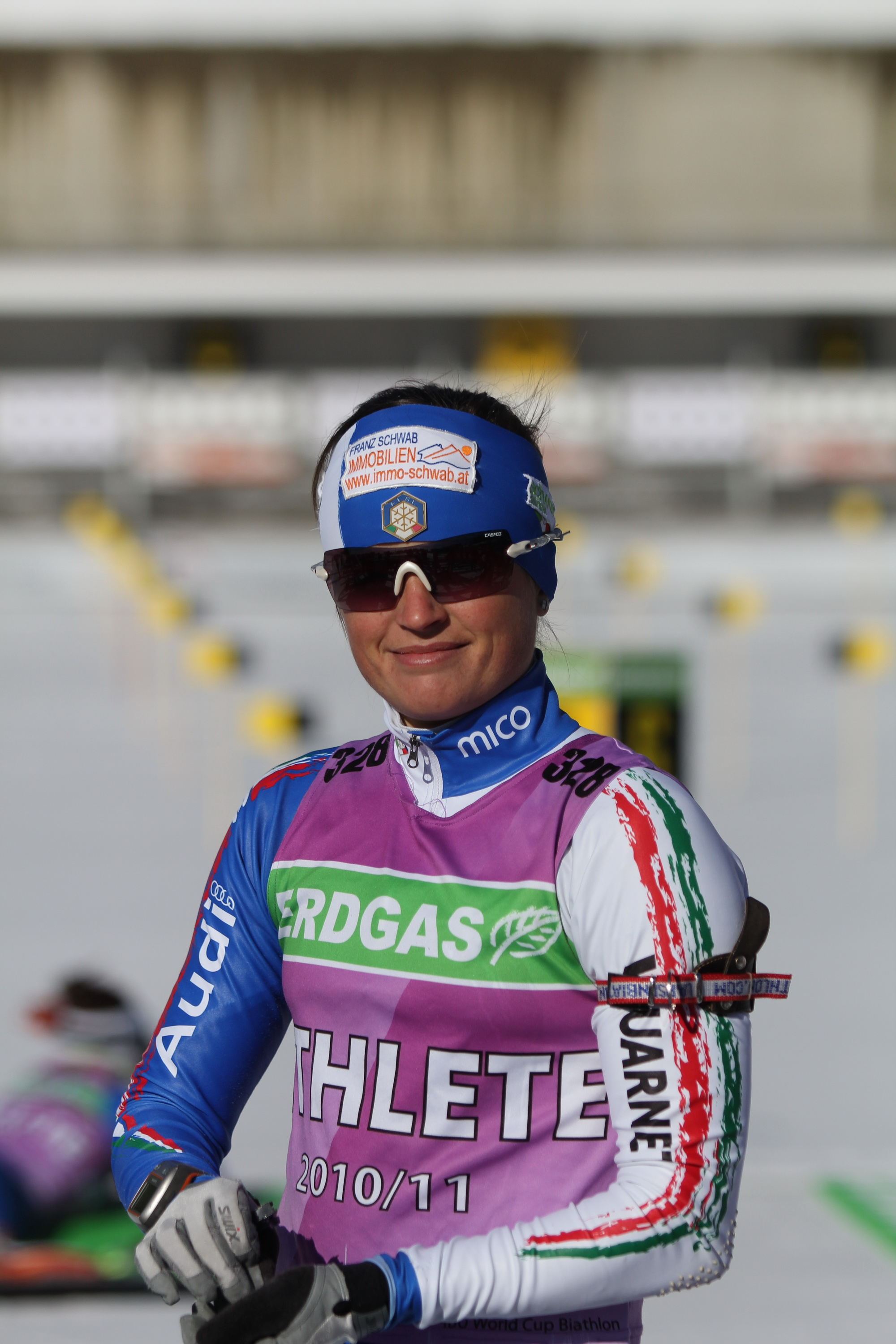 Karin Oberhofer (ITA) during training at Holmenkollen / Oslo